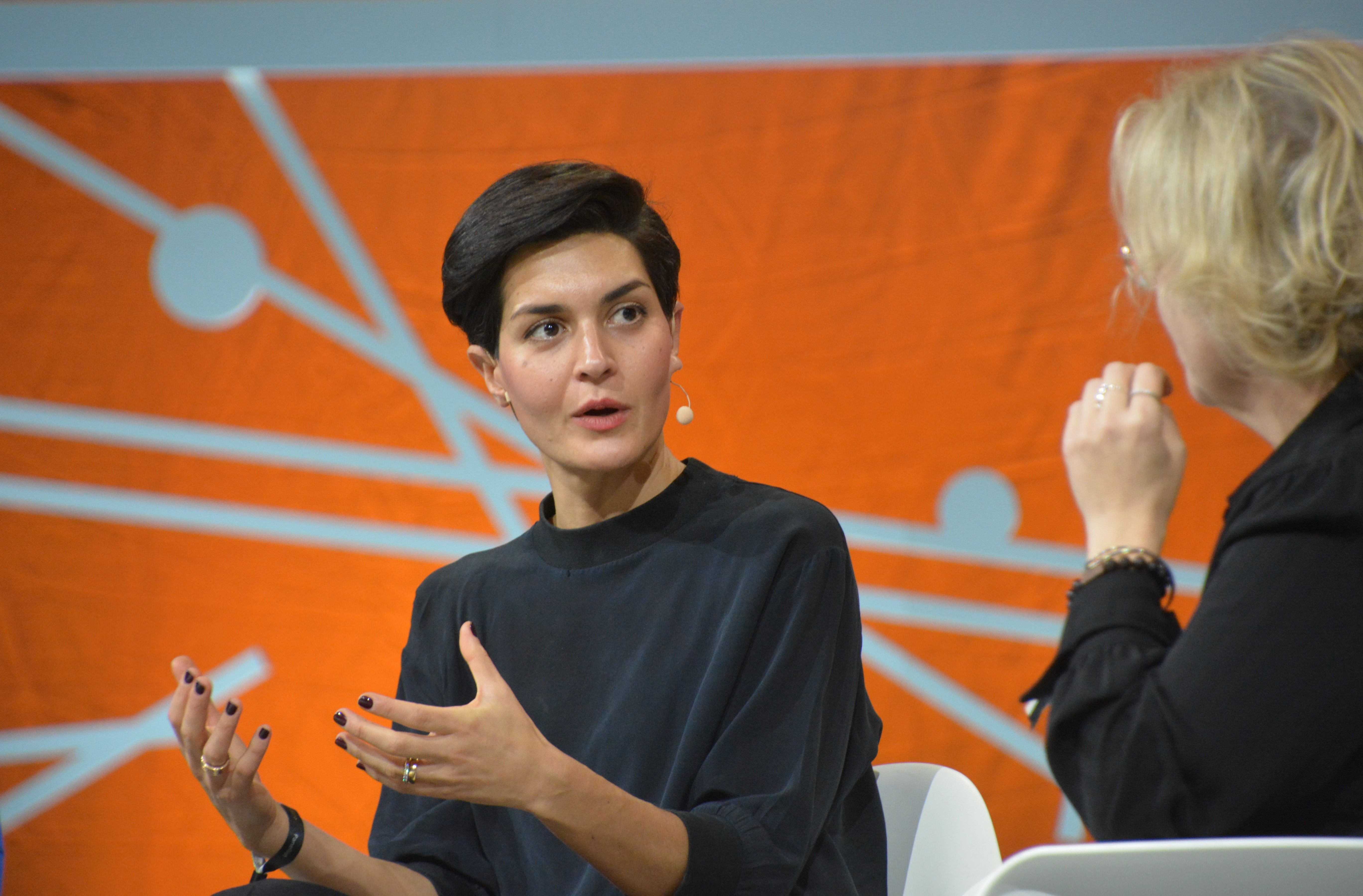 Armita Golkar with moderator Carin Klaesson at Nobel Week Dialogue in Gölteboirg 2019